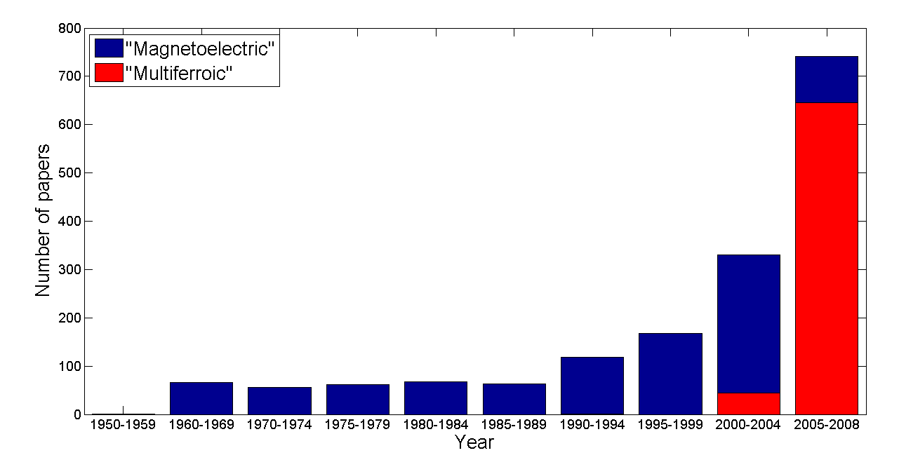 Bar chart showing number of papers using the keyword terms magnetoelectric and multiferroic. Data collected via standard Web of Science search for magneto-electric, magnetoelectric, multi-ferroic, and multiferroic.